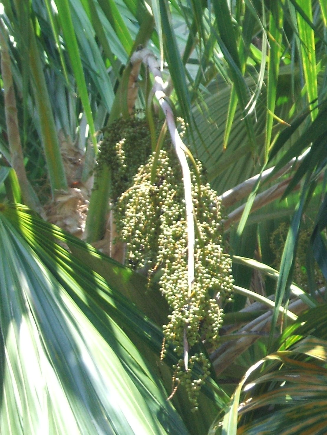 Thrinax excelsa at Fairchild Tropical Botanic Garden, Coral Gables, Florida, USA.